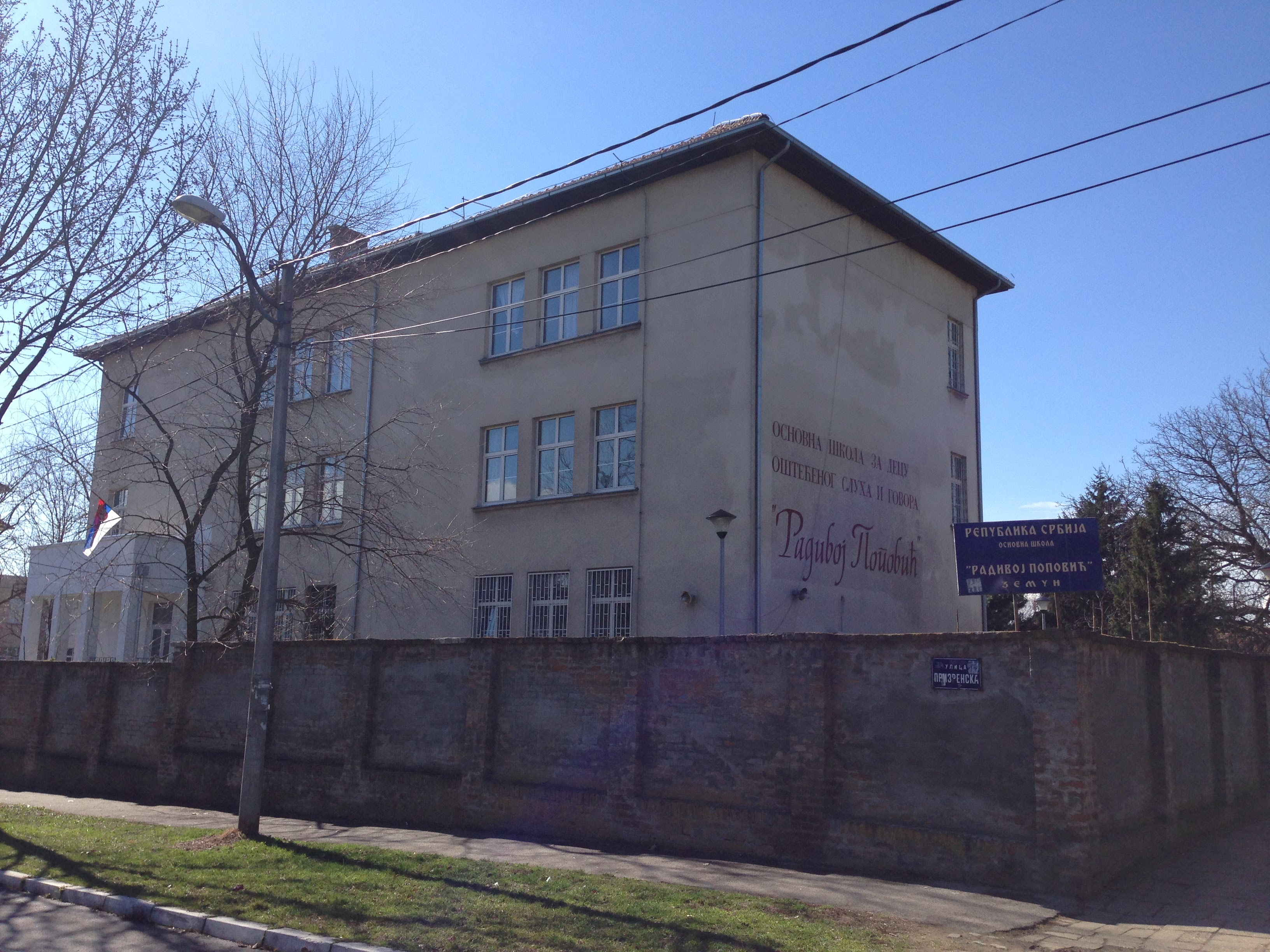 Elementary School Radivoj Popović Zemun Српски (ћирилица): Основна школа Радивој Поповић Земун